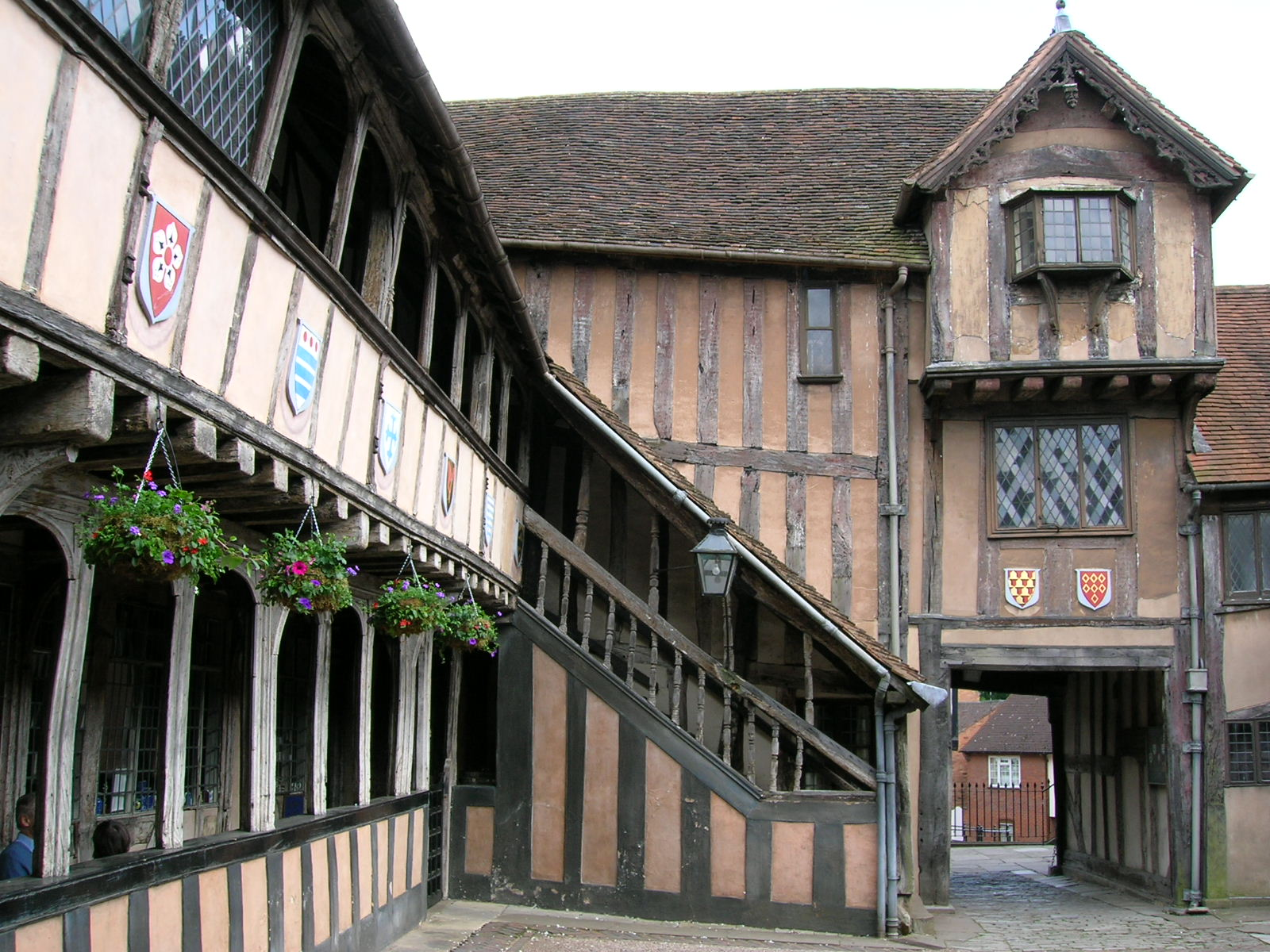 Lord Leycester Hospital, High Street, Warwick